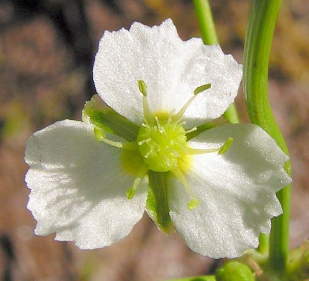 The flower of Alisma plantago-aquatica. Moscow region, Russia.